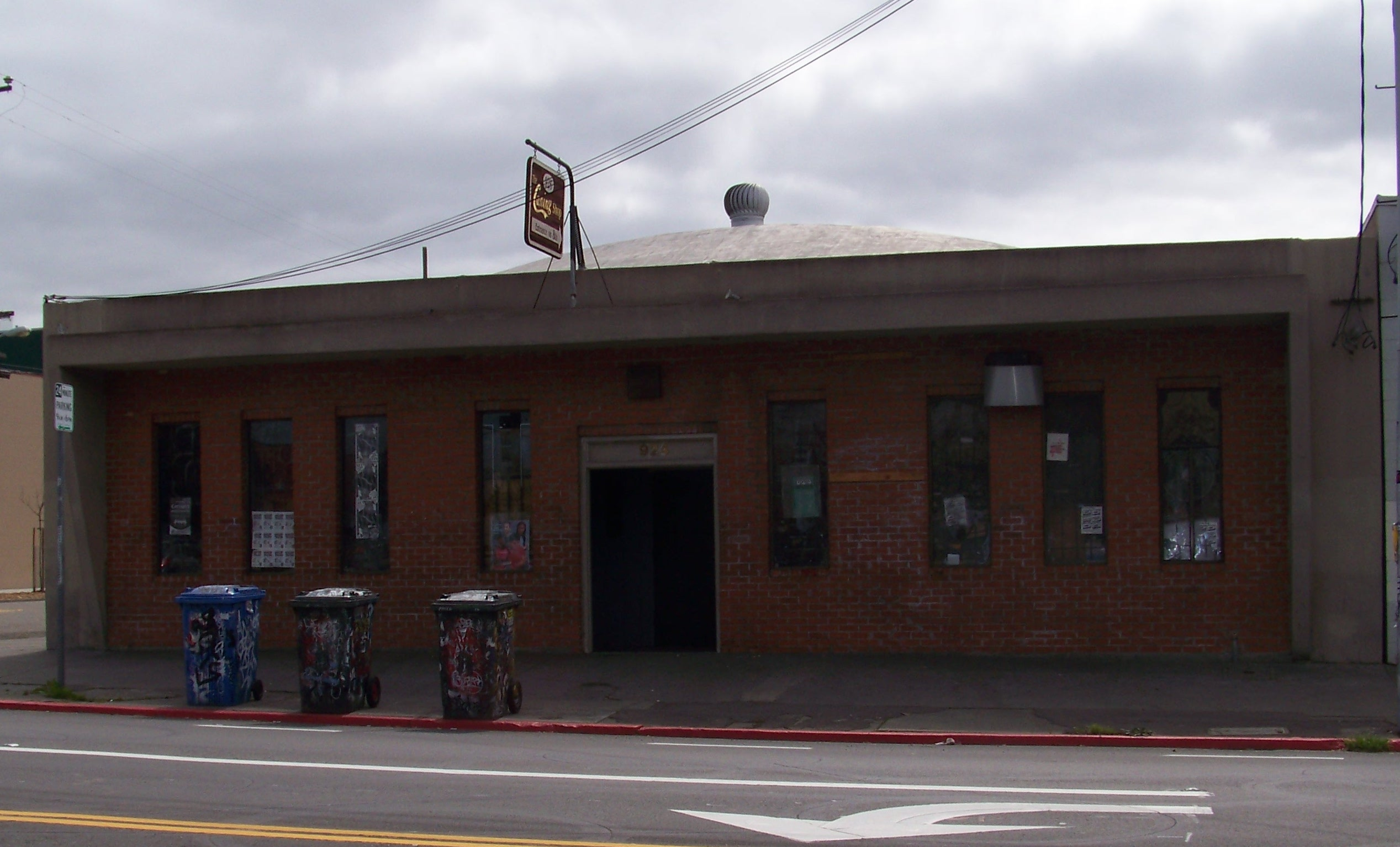 Front of 924 Gilman in Berkeley, California